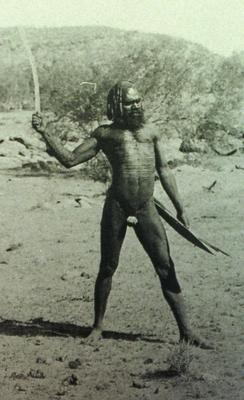 18th Century Aborigine warrior. Unlikely to be Pemulwuy as photography didn't exist in his age.